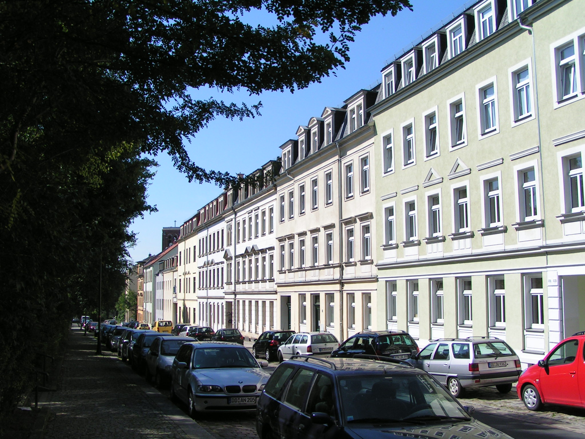 Dresden, Hechtviertel, Schanzenstraße